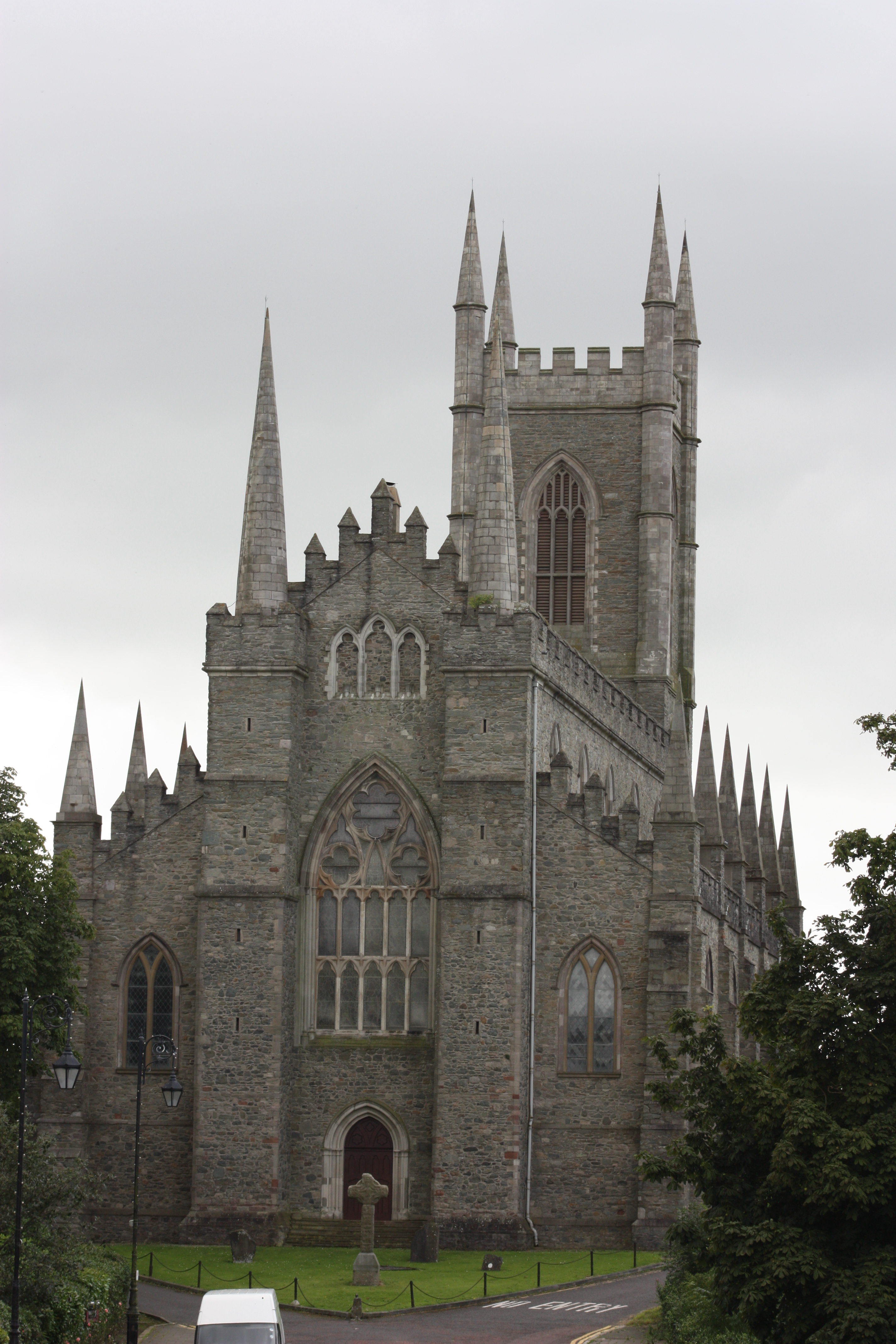 Down Cathedral, The Mall, English Street, Downpatrick, County Down, Northern Ireland, August 2009